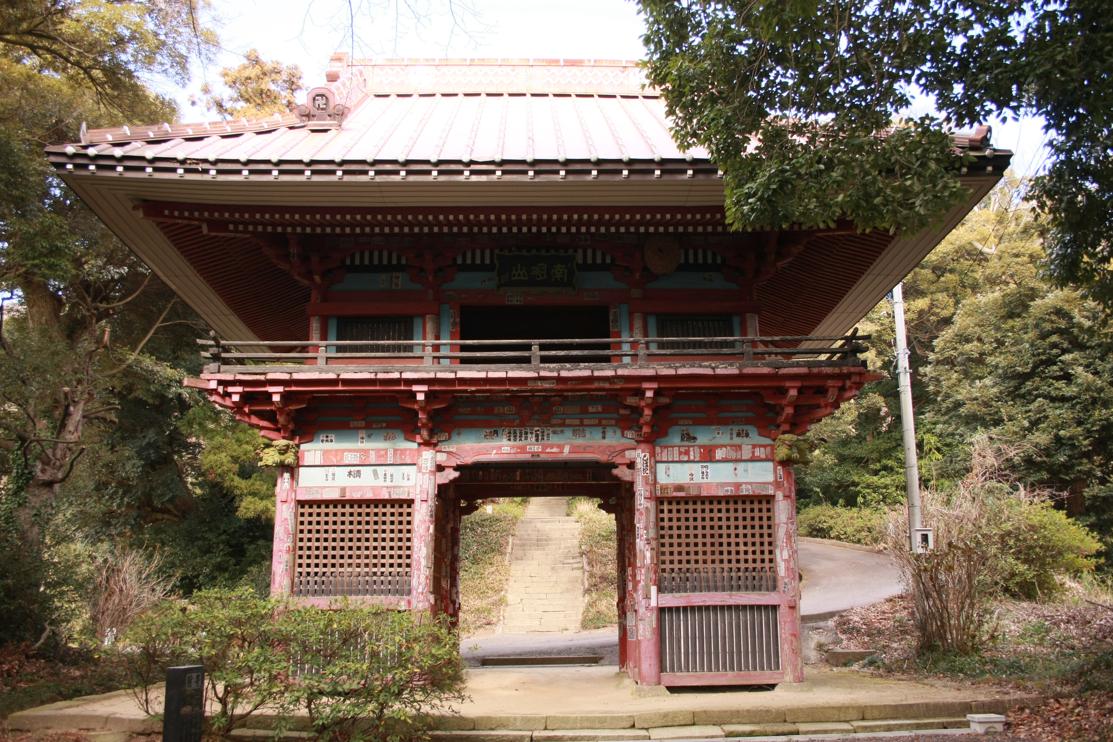 Niōmon gate of Kiyotaki-ji temple in Tsuchiura, Ibaraki